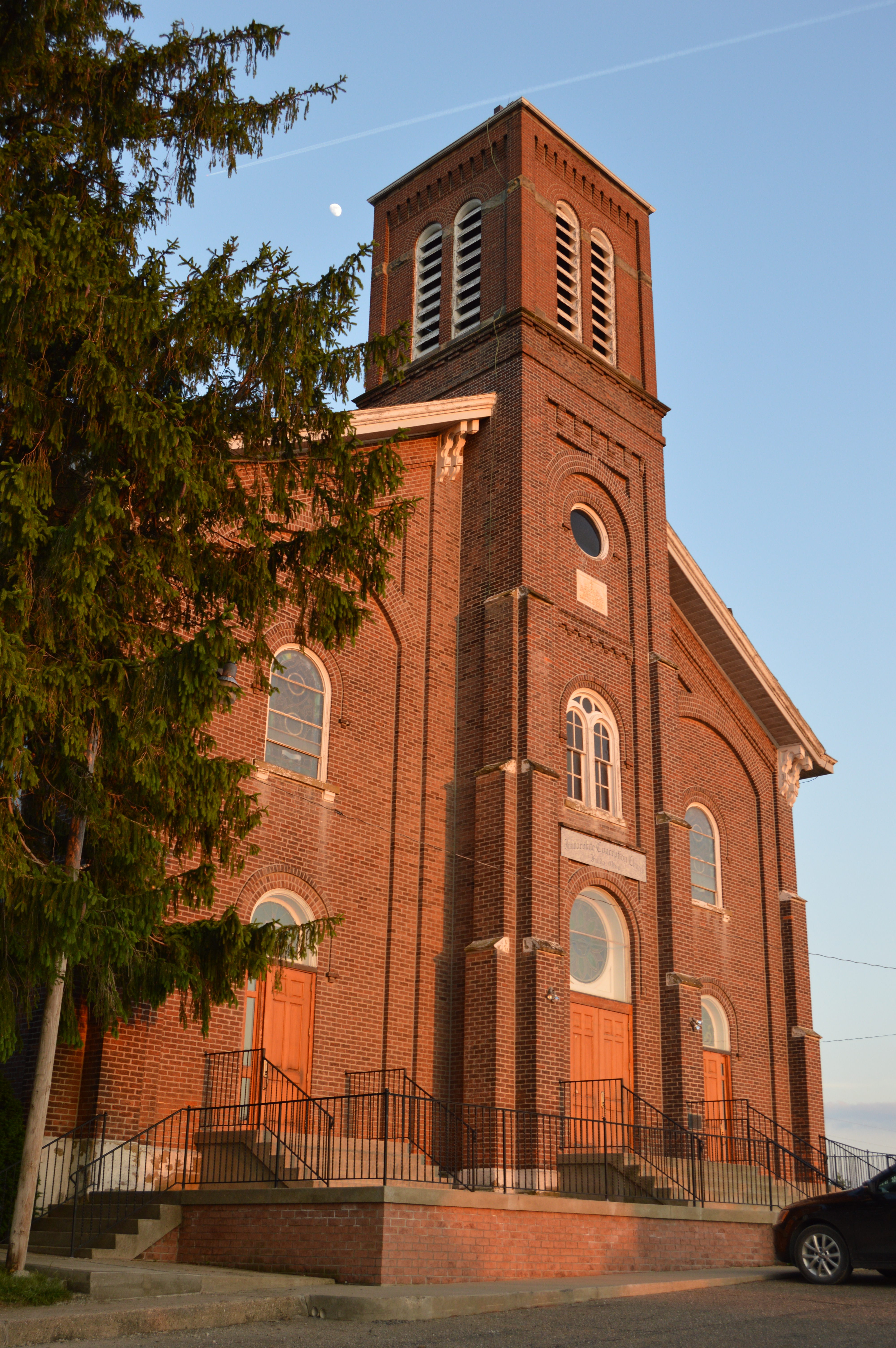 Front of Immaculate Conception Catholic Church, located on Fulda Road in Fulda, Ohio, United States. Built in 1874, it is listed on the National Register of Historic Places.